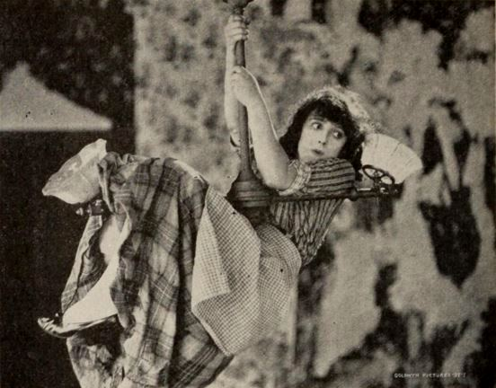 Still from the American comedy film A Perfect 36 (1918) with Mabel Normand, on page 26 of the October 19, 1918 Exhibitors Herald.